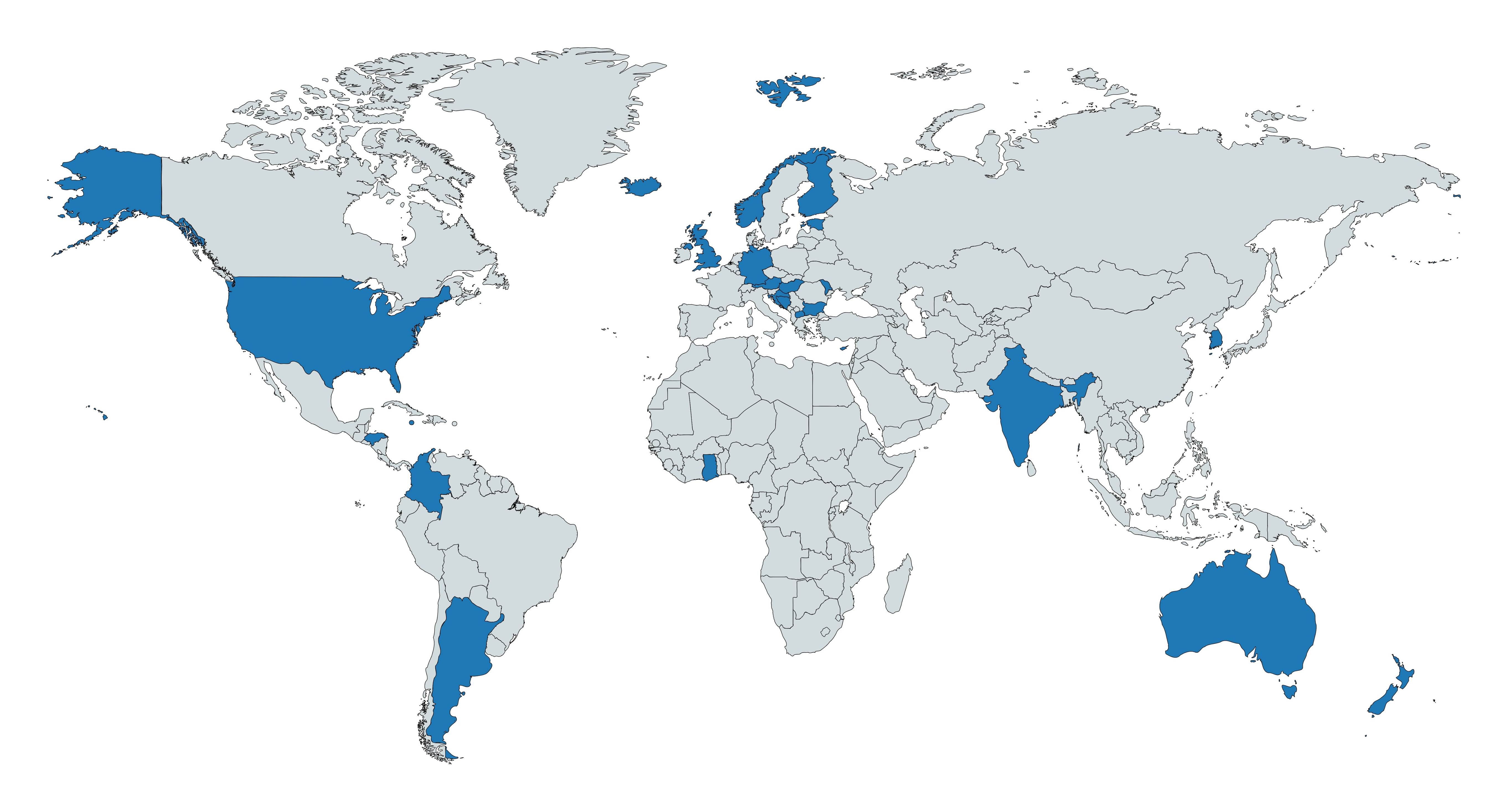 Countries with an International Democrat Union party member in Government